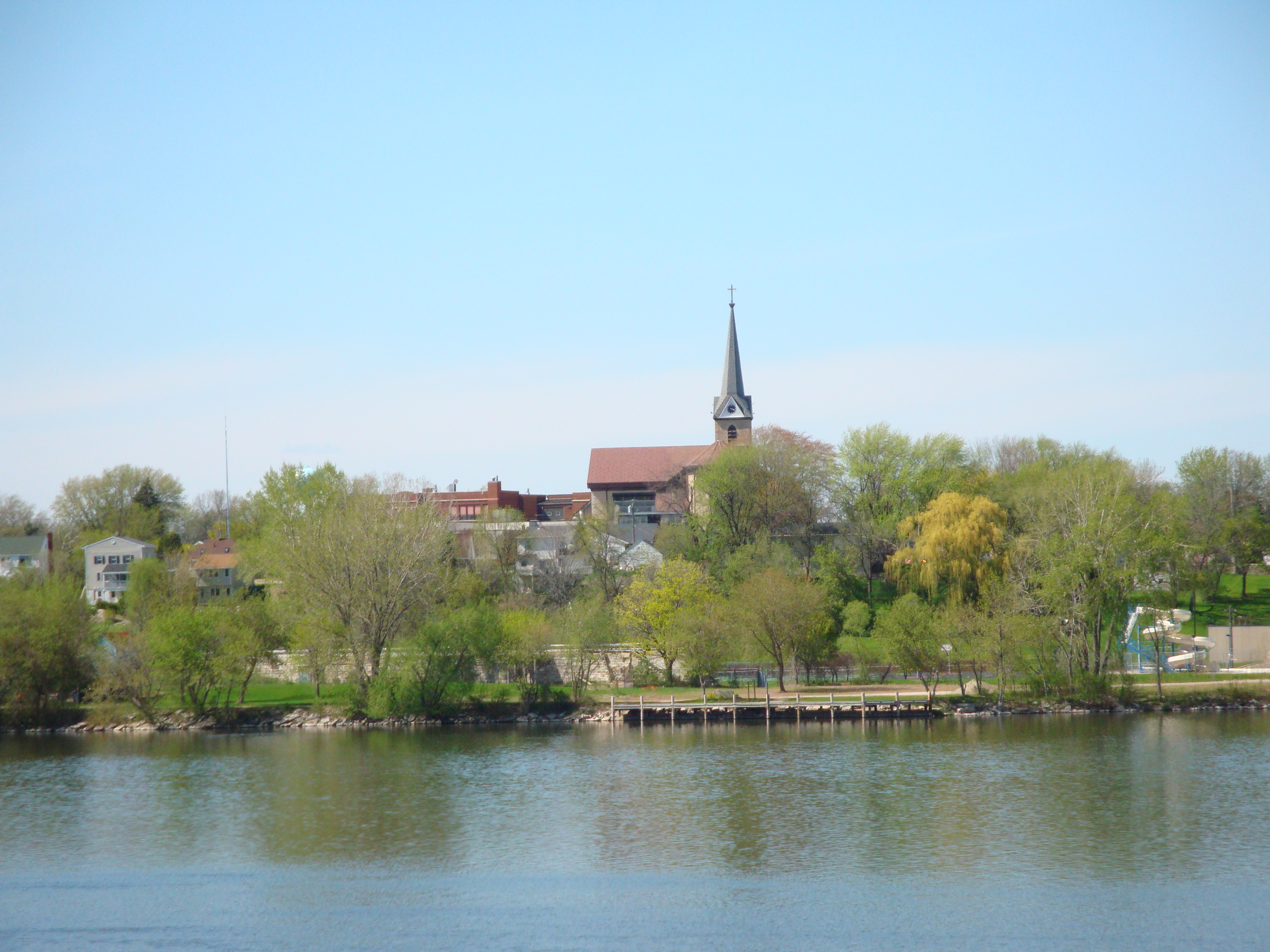 Saint John Catholic Church and Island Park from the Fox River in Little Chute